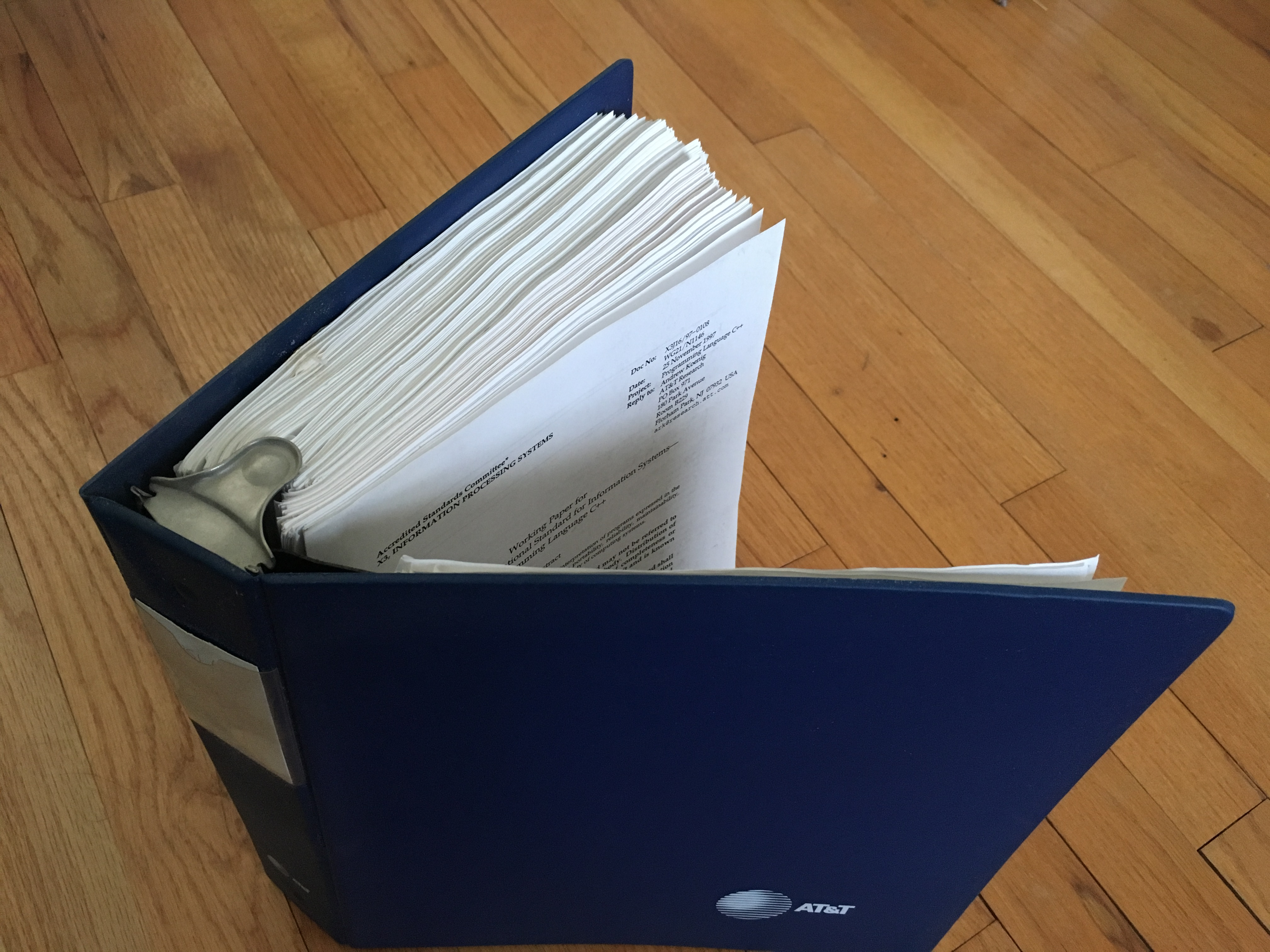 The centerpiece of the efforts of the ISO/IEC JTC1/SC22/WG21 C++ Standards Committee during the 1990s was the "Working Paper", a draft of the proposed standard that included the latest changes that had been agreed upon. The Working Paper was maintained by Andrew Koenig of AT&T Laboratories–Research in Florham Park, New Jersey, and revised, printed, and mailed to committee members between each of the committee's trice-annual meetings. Here seen as one committee member kept it in a three-ring binder in 1997, the draft eventually was approved and became ISO/IEC 14882:1998, also known as C++98.